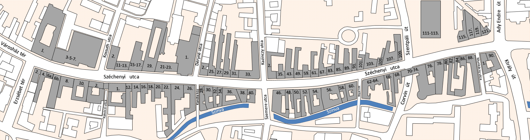 Map of Széchenyi Street Miskolc Hungary